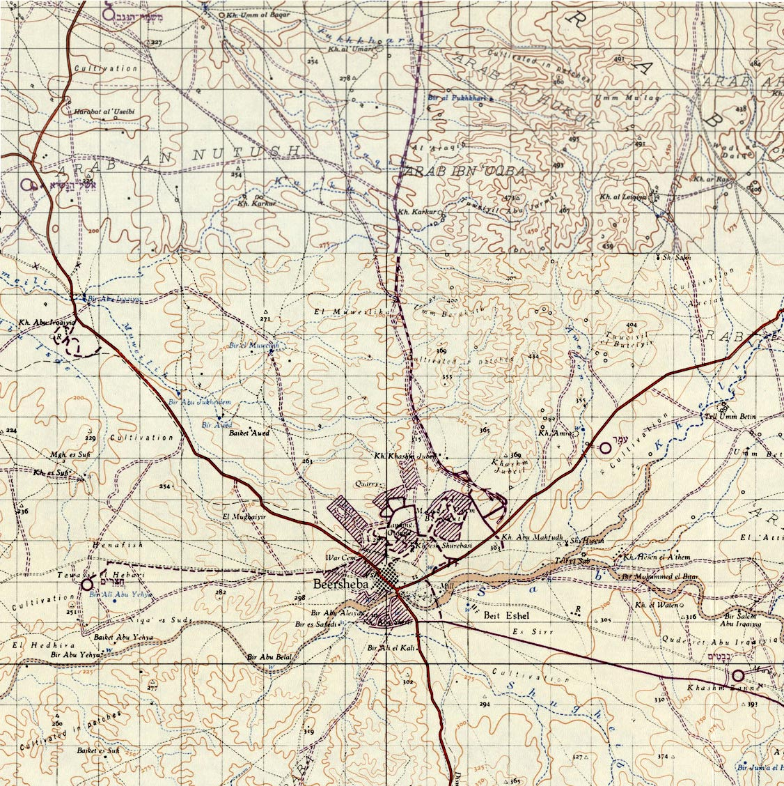 Vicinity of Beersheba (British Mandate Palestine before 1948, Israel after 1948) with information from 1940 to 1960. This is a joined section of sheet Beersheba and sheet Hebron of 1:100000 series maps produced by the Survey of Palestine. Most features are from 1941-2 with minor road corrections in 1946. Items overprinted in a purple color are due to the Survey of Israel in the 1956-60 time period.